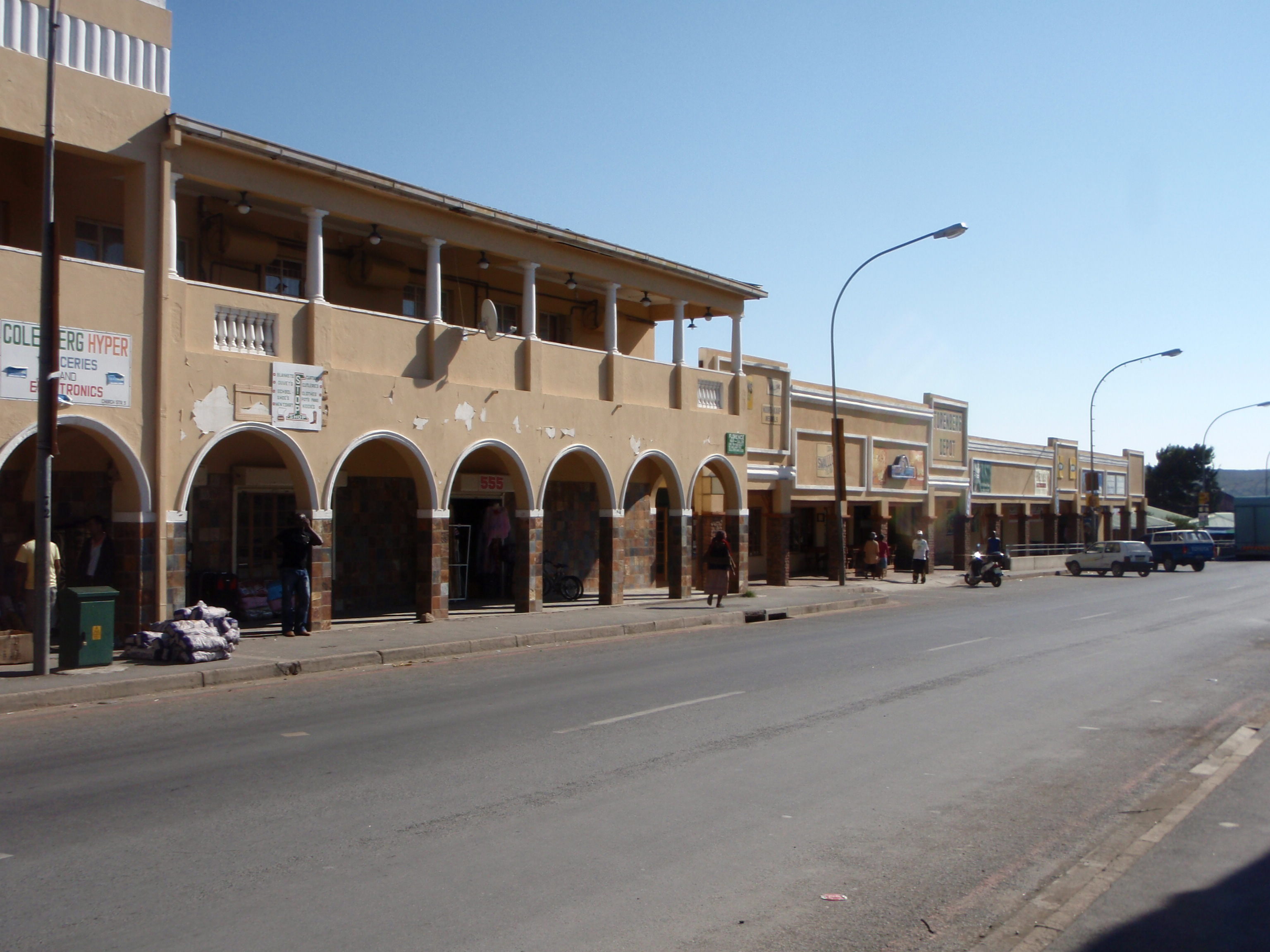 Another view of a part of Coleberg's main street, Northern Cape, South Africa